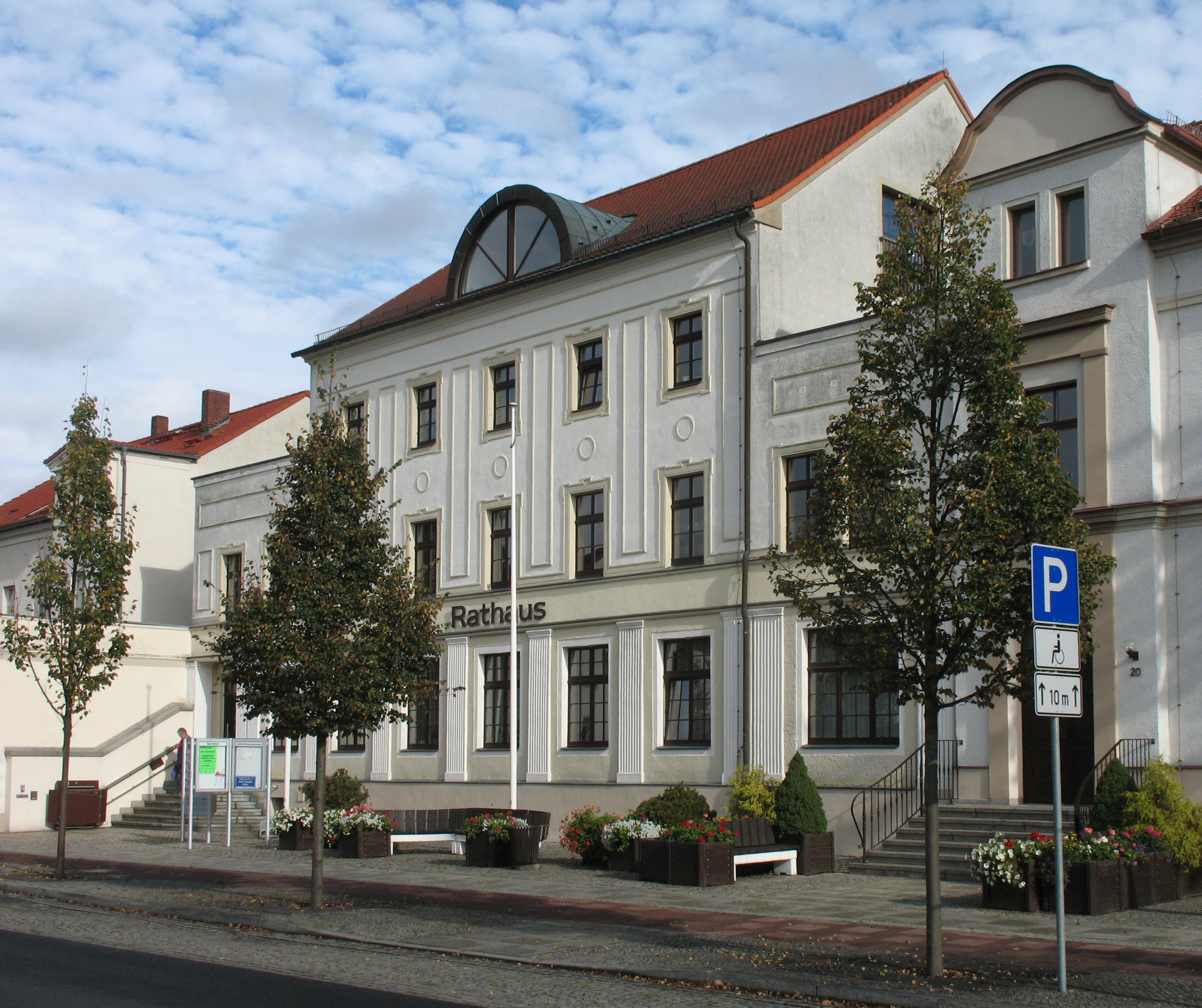 Town hall in Niesky in Saxony, Germany